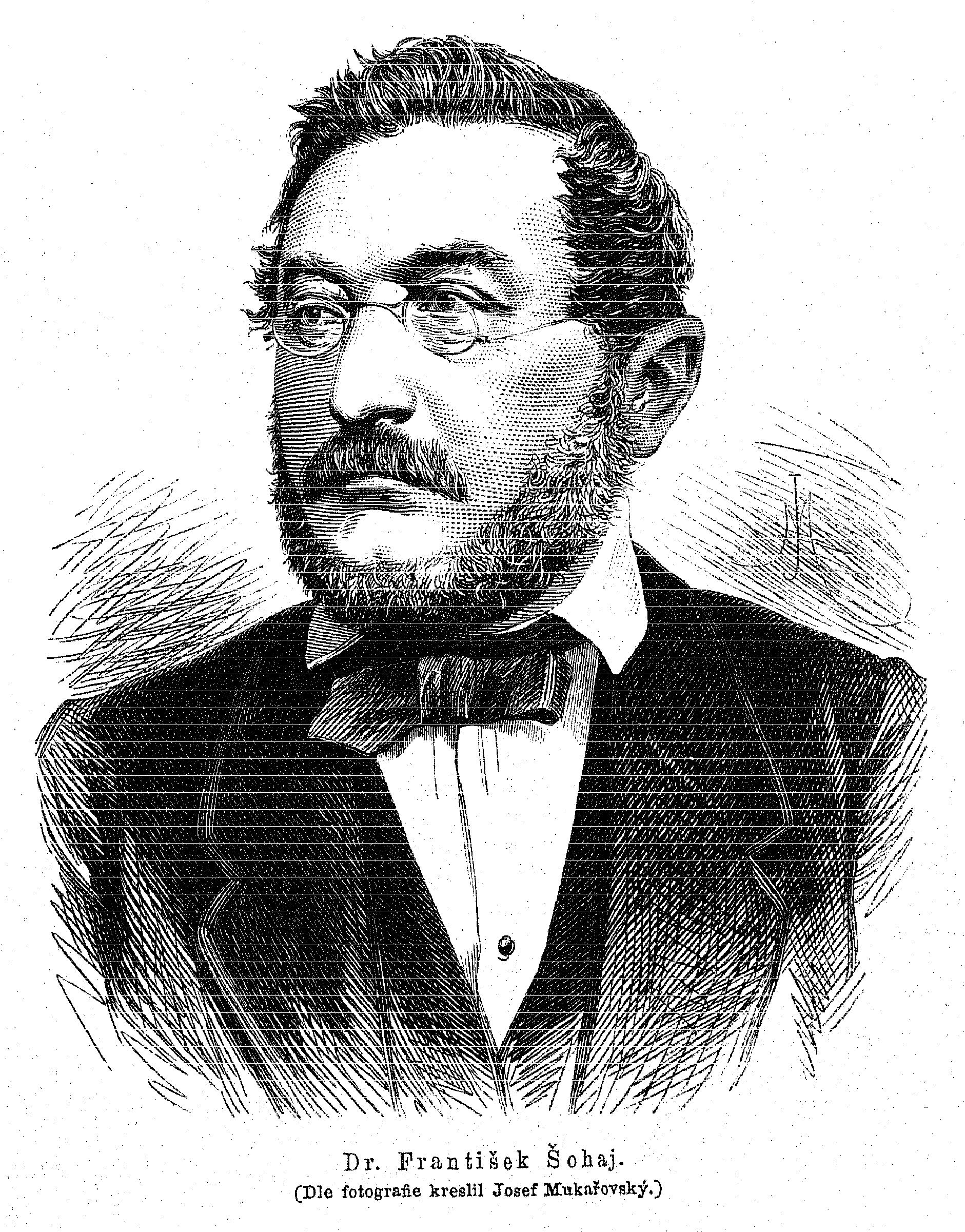 Portrait of František Šohaj (1816 - 1878), Czech philologist and high school teacher.